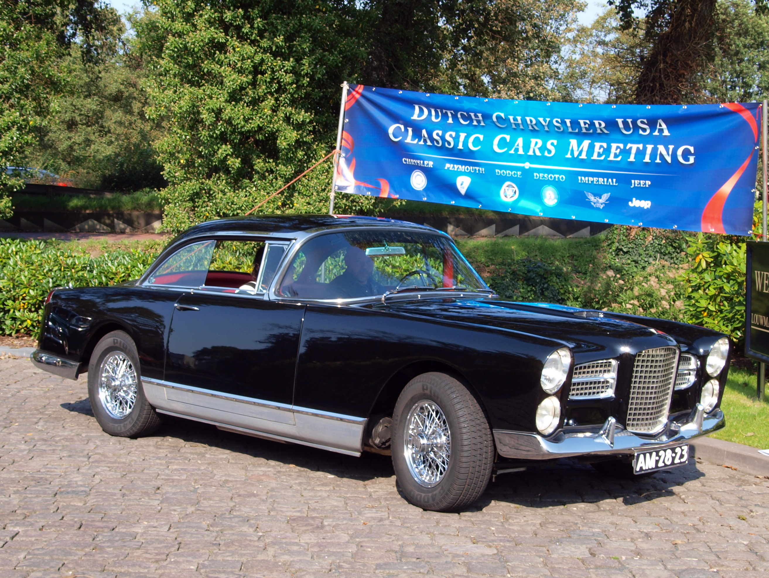 Photographed at the premmesis of the Louwman museum, The Hague, The Netherlands. OLYMPUS DIGITAL CAMERA